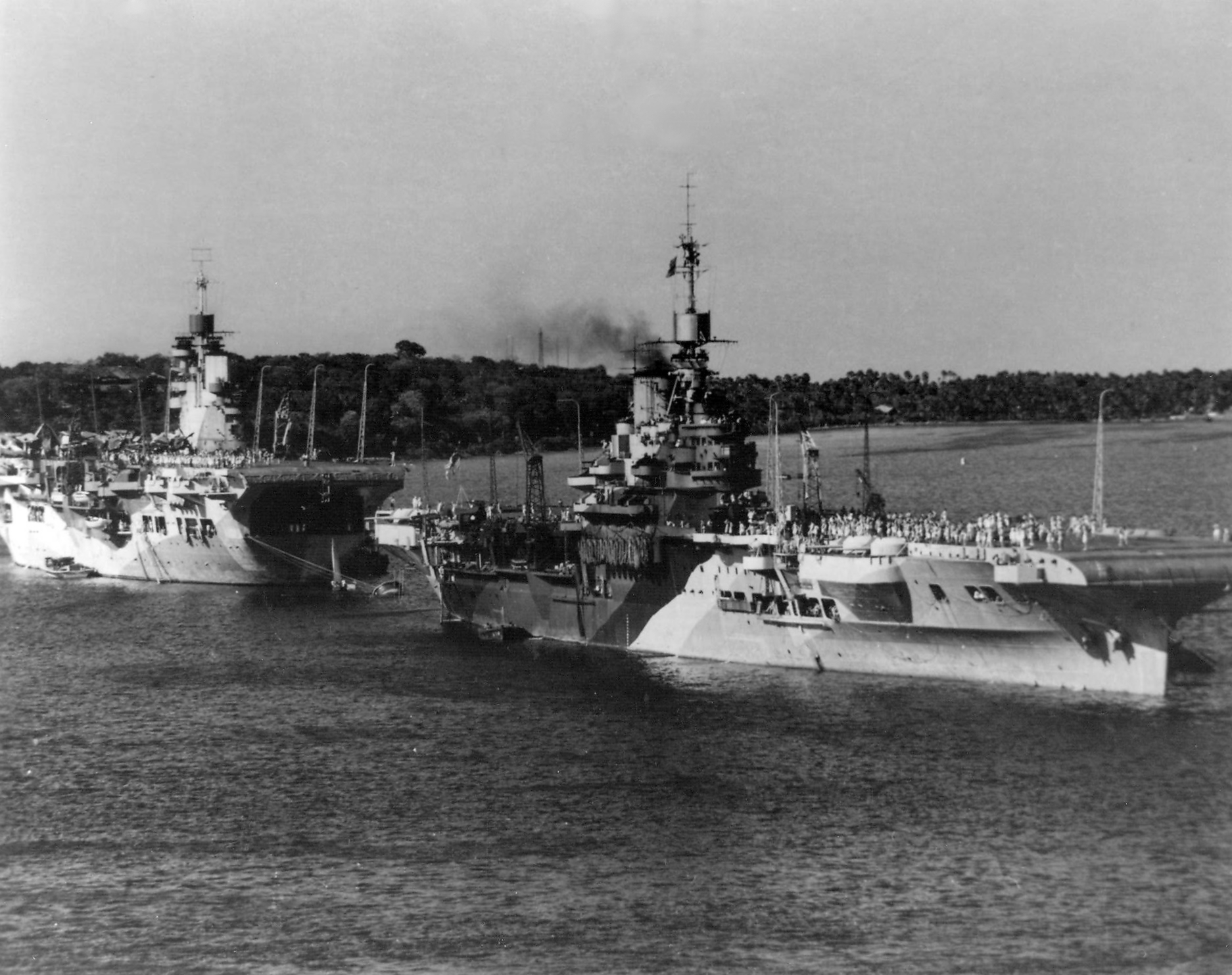 The Royal Navy aircraft carrier HMS Unicorn (I72, left) and HMS Illustrious (87), probably pictured at Trincomalee, Ceylon, in 1944.